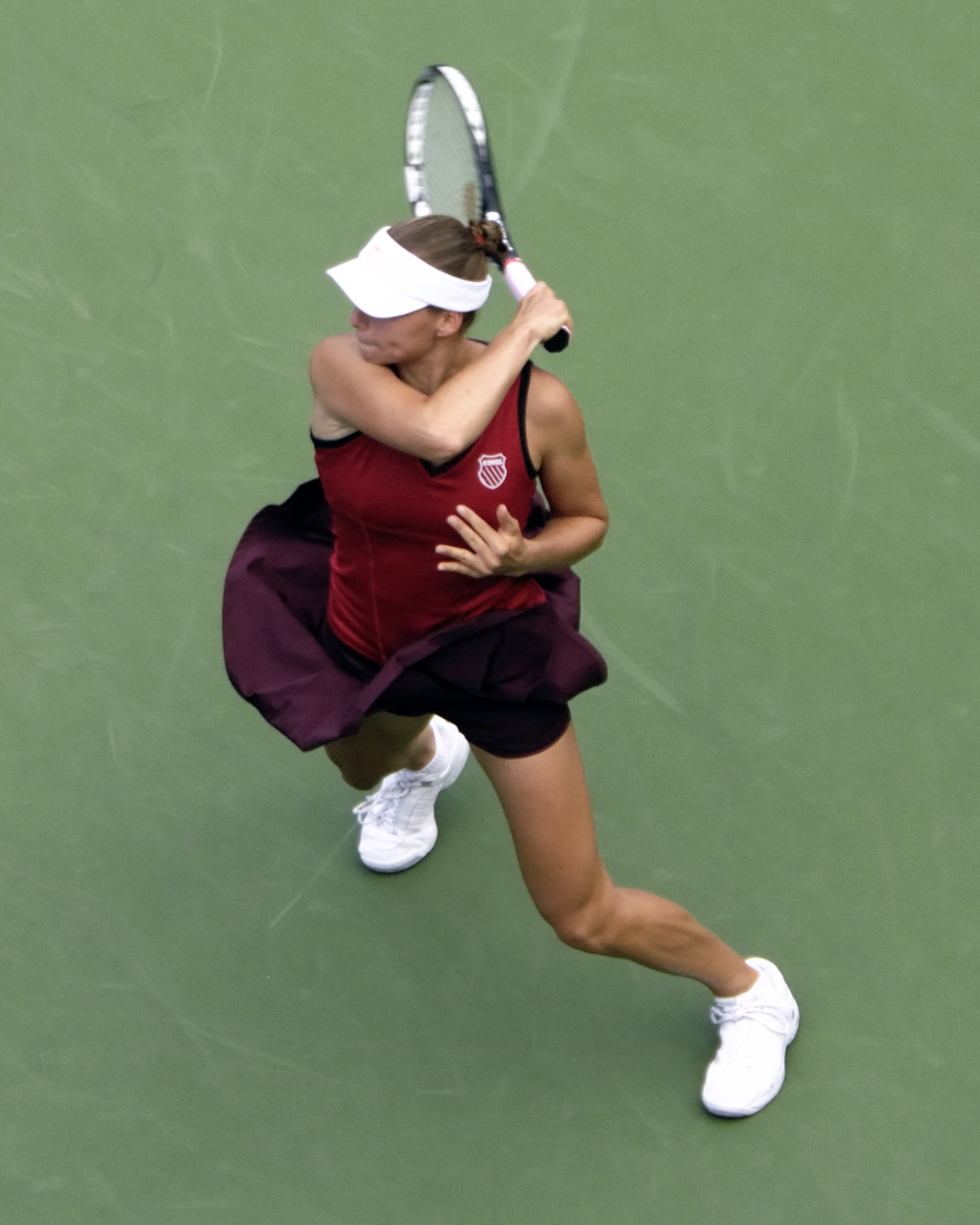 Vera Zvonareva at the 2009 US Open